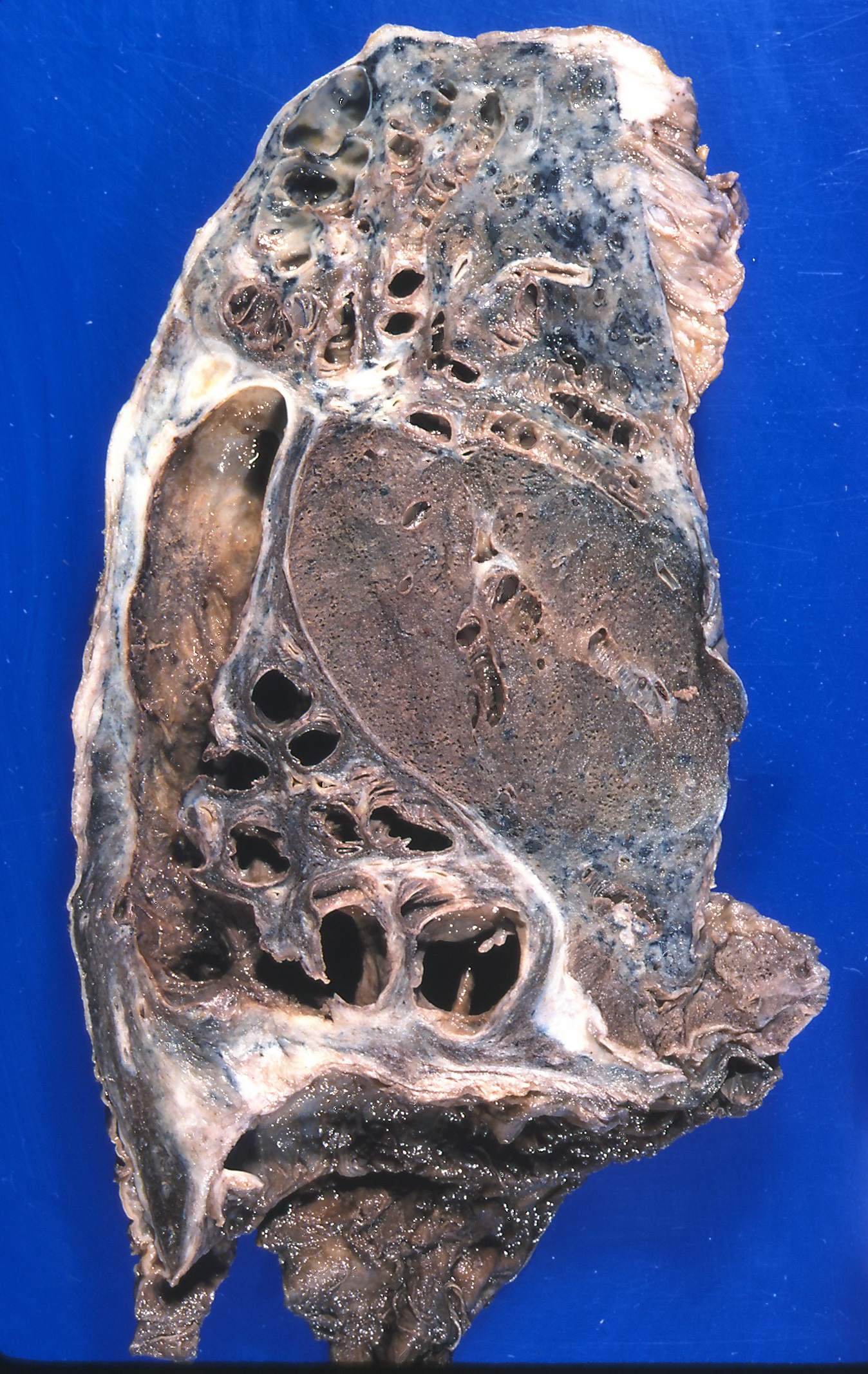 Bronchiectasis